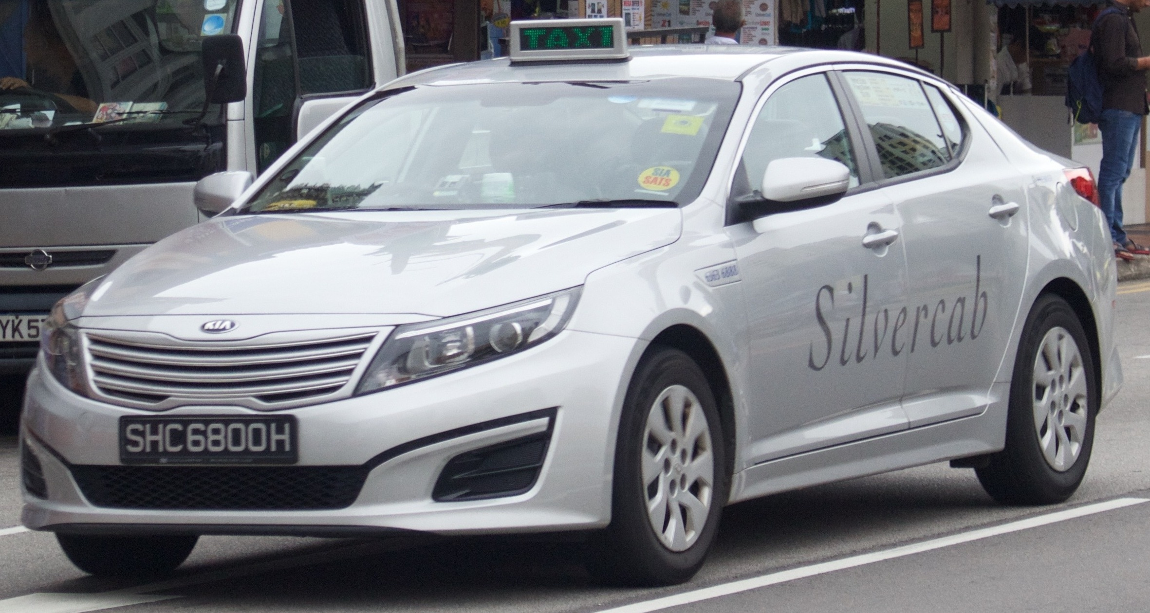 2014 Kia Optima (TF) 1.7 diesel sedan, SilverCab, photographed in Singapore. Vehicle registration enquiry resultsJurisdictionSingaporeRegistrationSHC6800HChassis codeKNAGM414MF5593571Engine codeD4FDEH313364Year of manufacture2014